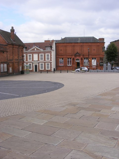 Stone Street Square The square in front of Dudley Museum.